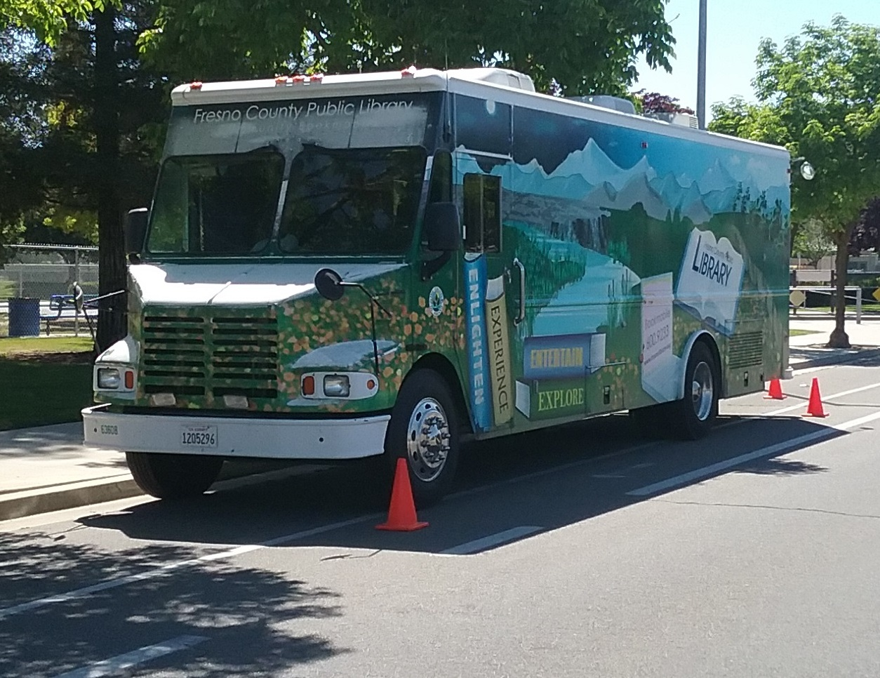 An exterior view of the bookmobile from Fresno County Public Library